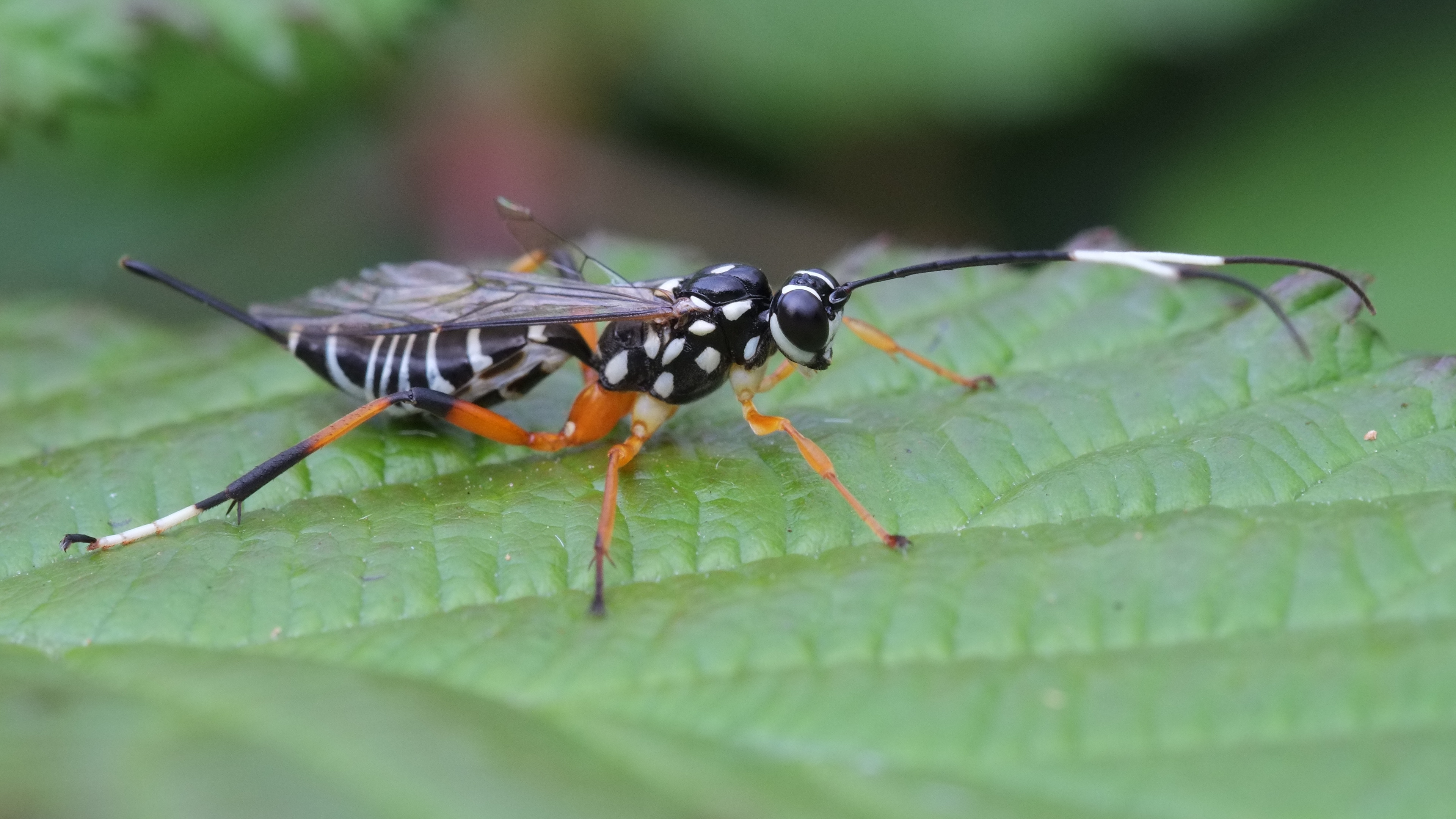 Lemon Tree Borer Parasite (Xanthocryptus novozealandicus) on blackberry leaf